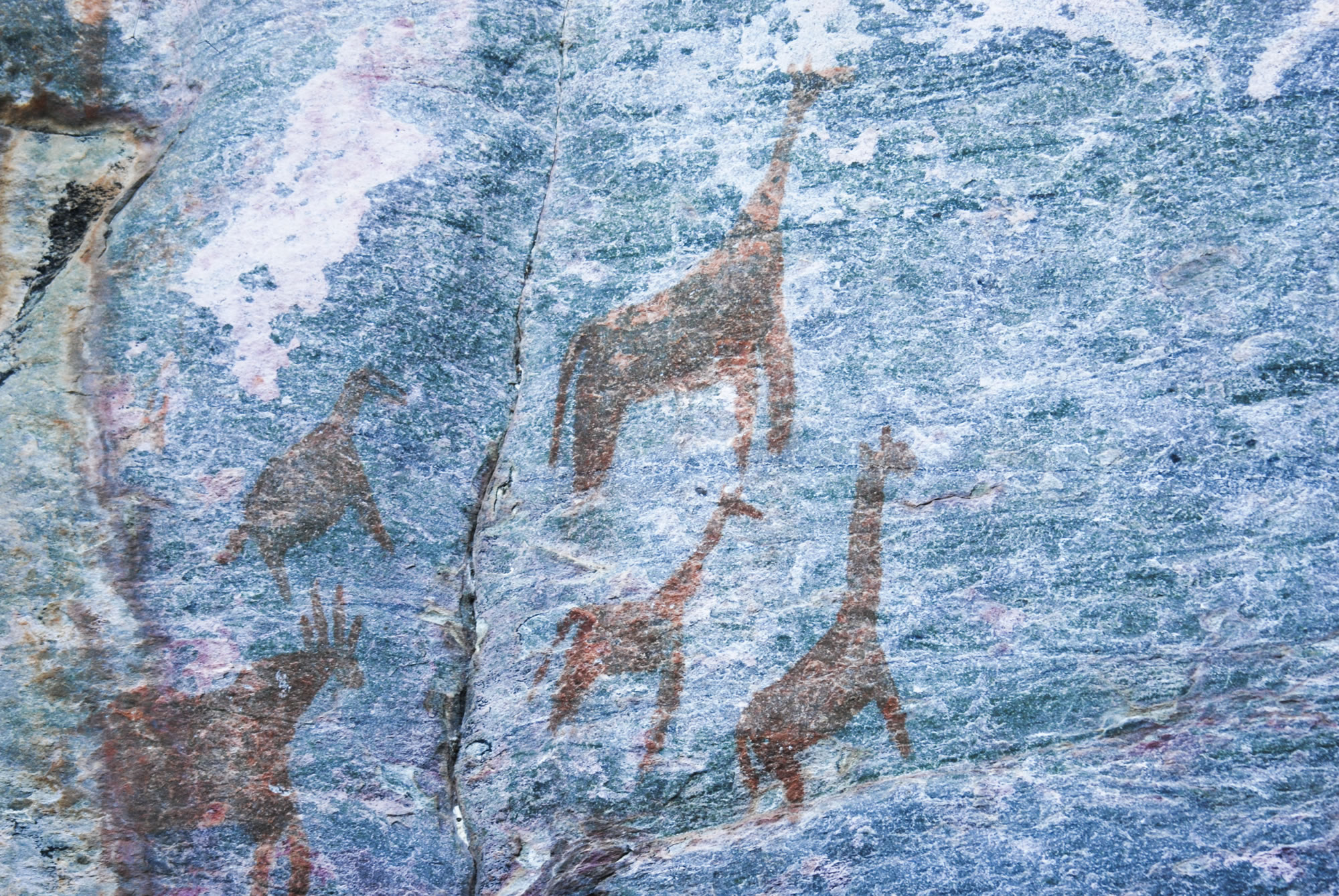 Animal rock art at Tsodilo